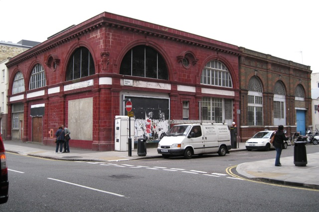 The original station building for the Charing Cross, Euston and Hampstead Railway's Euston station on the London Underground. The station opened in 1907, but the building ceased to be used after a few years when the platforms were connected below ground to those of the City and South London Railway's separate Euston station and to the mainline station.